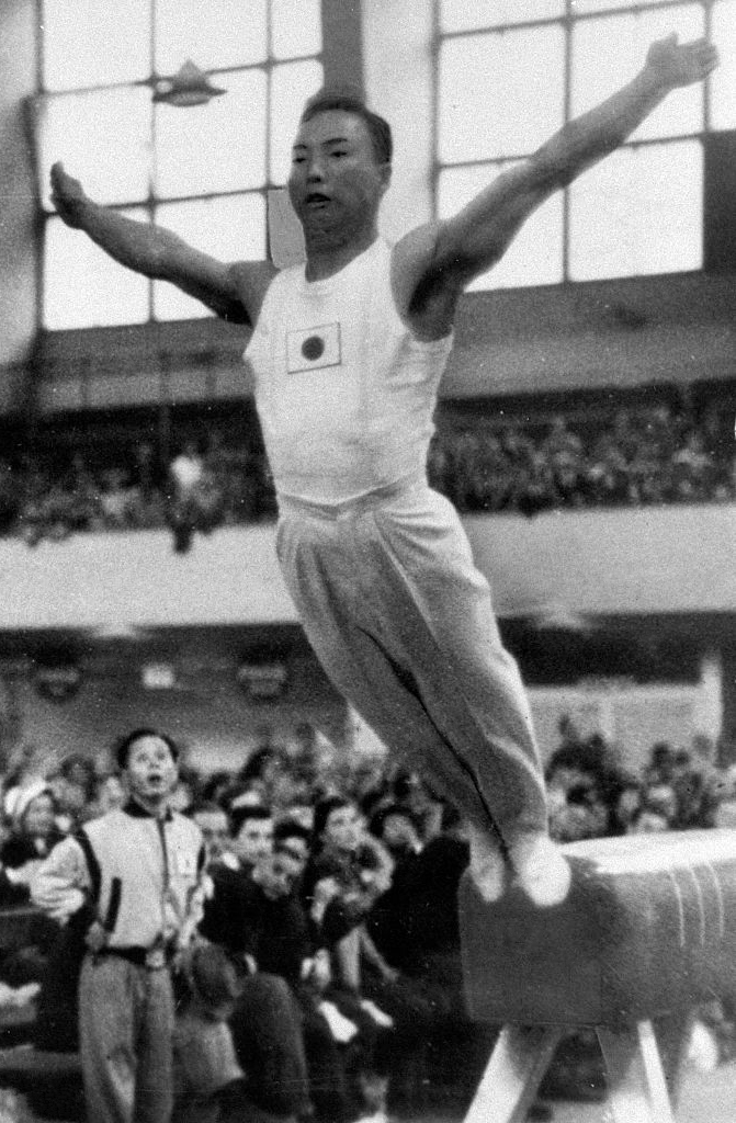 Masao Takemoto of Japan competes in the Artistic Gymnastics Men's Horse Vault apparatus final during the Helsinki Summer Olympic Games at Messuhalli on July 21, 1952 in Helsinki, Finland